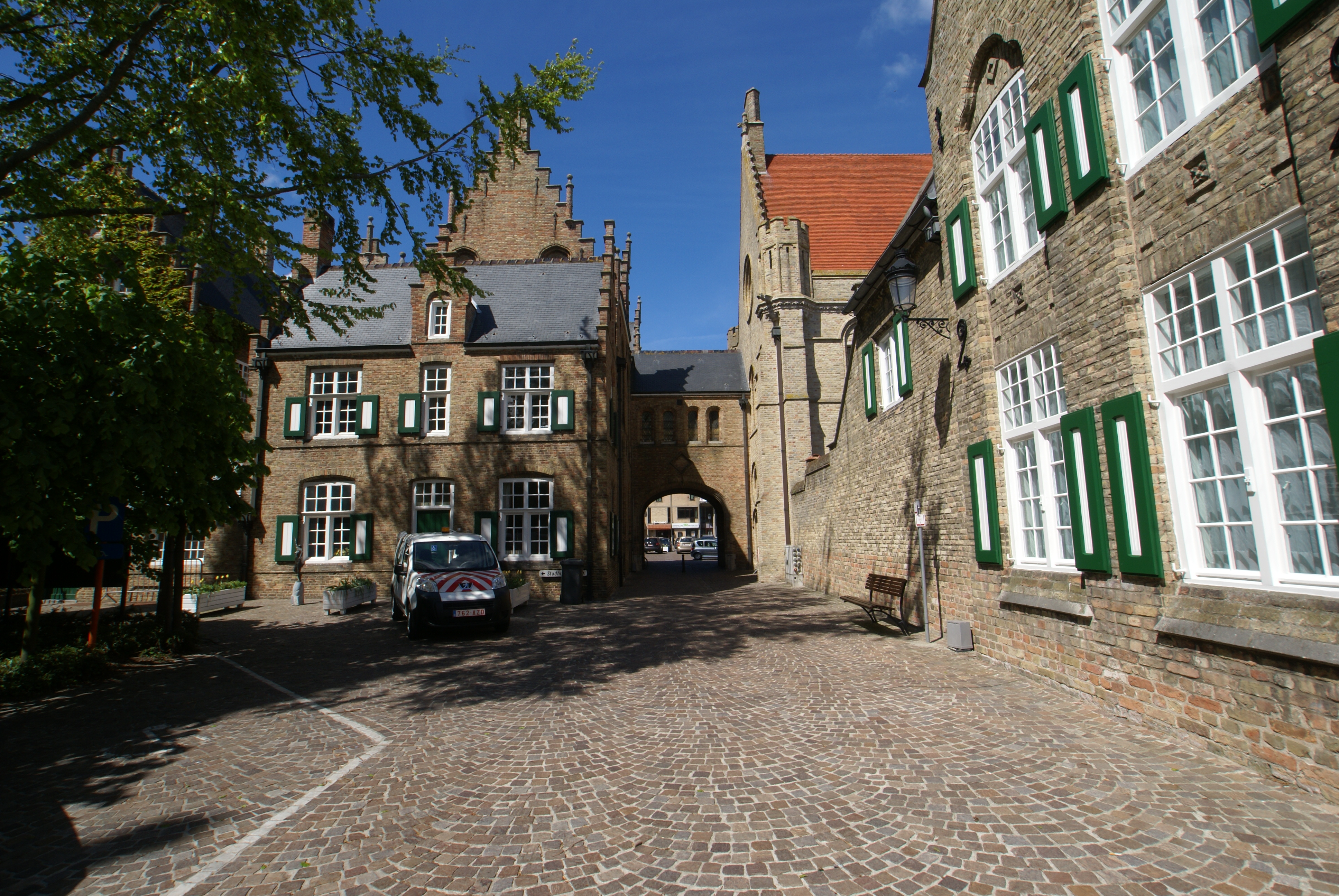 Nieuwpoort (Belgium): Hendrik-Geeraertplein Square